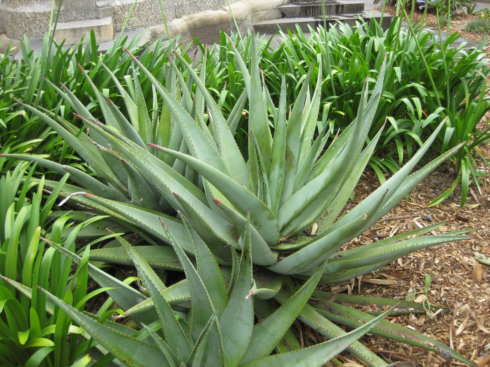 Photographed at the Royal Botanic Gardens Sydney (Australia) in January